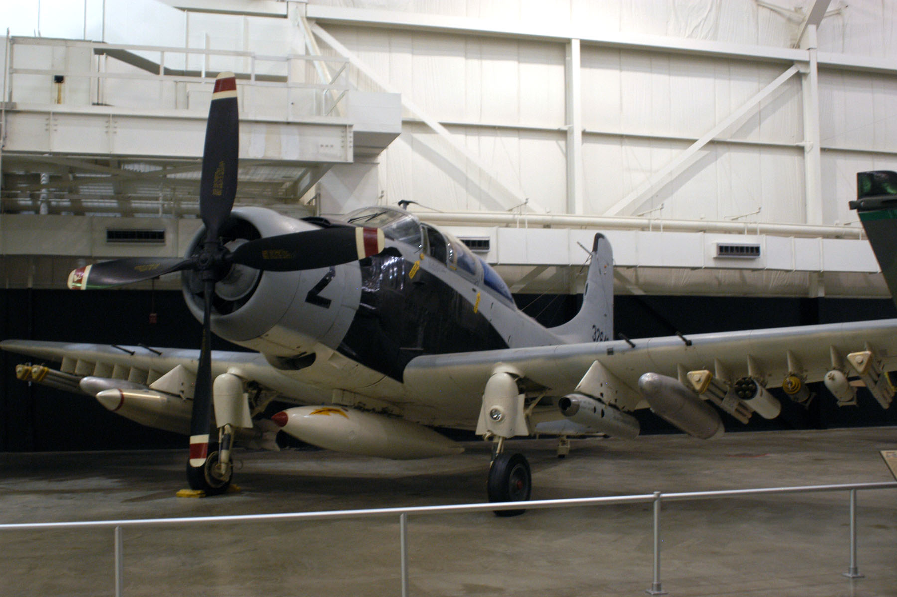 The Douglas A-1E Skyraider (US Navy BuNo 132649) at the National Museum of the United States Air Force (Dayton, Ohio, USA) is the airplane flown by Maj. Bernard Fisher on 10 March 1966, when he rescued a fellow pilot shot down over South Vietnam in the midst of enemy troops. For this deed he was awarded the Medal of Honor. The airplane, severely damaged in combat in South Vietnam, came to the museum in 1967 for preservation. From July 1965 through June 1966, he flew 200 combat sorties in the A-1E/H as a member of the 1st Air Commando Squadron located at Pleiku Air Base, South Vietnam. On March 10, 1966, he led a two-ship of Skyraiders to the A Shau Valley in support of friendly troops in contact with the enemy. A total of six "Spads" were striking numerous emplacements when the A-1 piloted by Major D. W. "Jump" Myers was hit and forced to crash-land on the airstrip of the CIDG-Special Forces camp. Myers bellied in on the 2,500-foot runway and took cover behind an embankment on the edge of the strip while Major Fisher directed the rescue effort. Since the closest helicopter was 30 minutes away and the enemy was only 200 yards from Myers, Fisher quickly decided to land his two-seat A-1E on the strip and pick up his friend. Under the cover provided by the other A-1s, he landed in the valley, taxied to Myer's position, and loaded the downed airman into the empty seat. Dodging shell holes and debris on the steel planked runway, Major Fisher took off safely despite many hits on his aircraft by small arms fire.